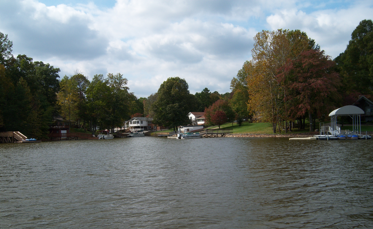 Cove and typical mixed neighborhood of Abbotts Creek part of High Rock Lake